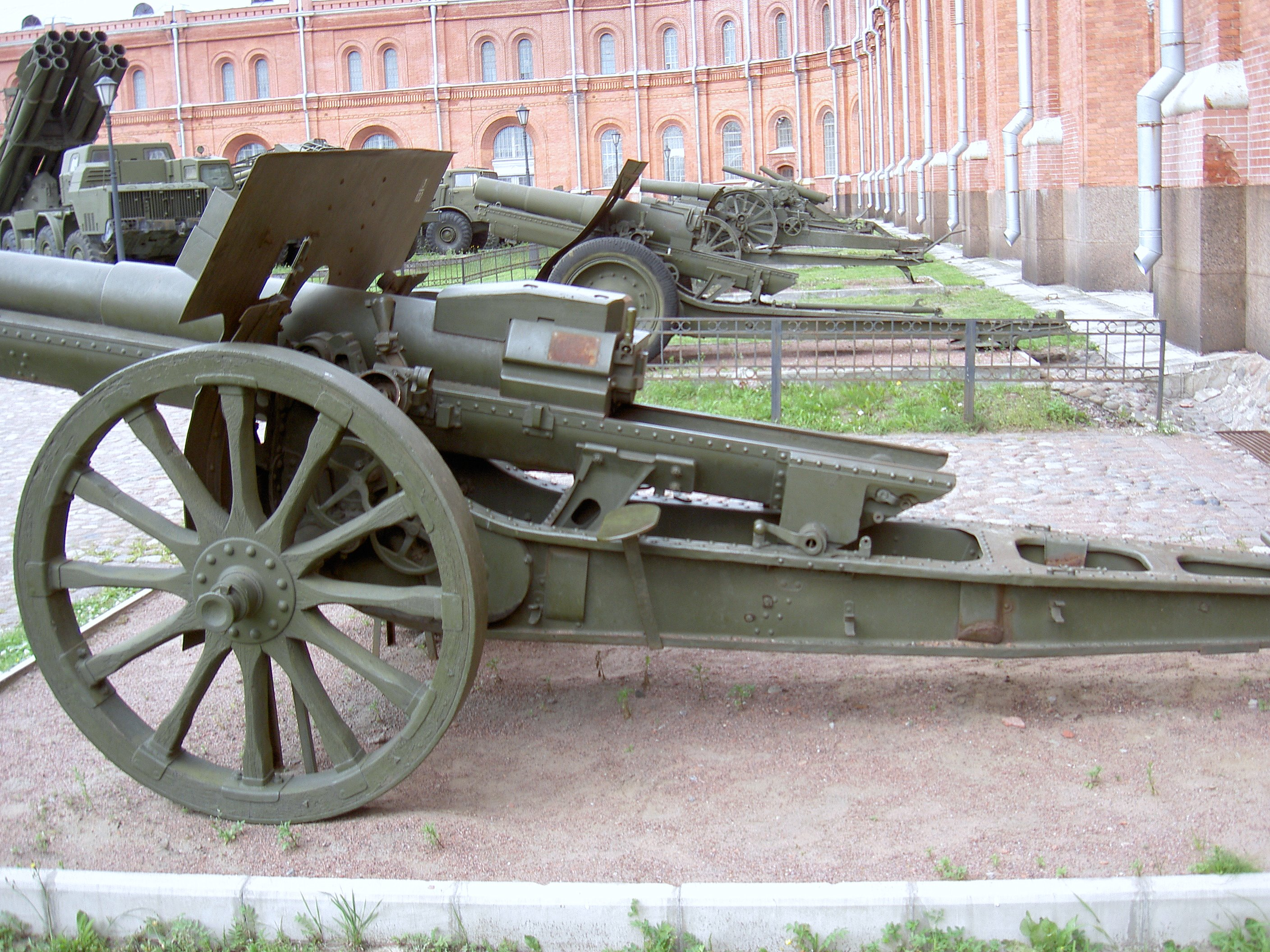 107-mm gun (1910/1930) in Saint Petersburg Artillery museum